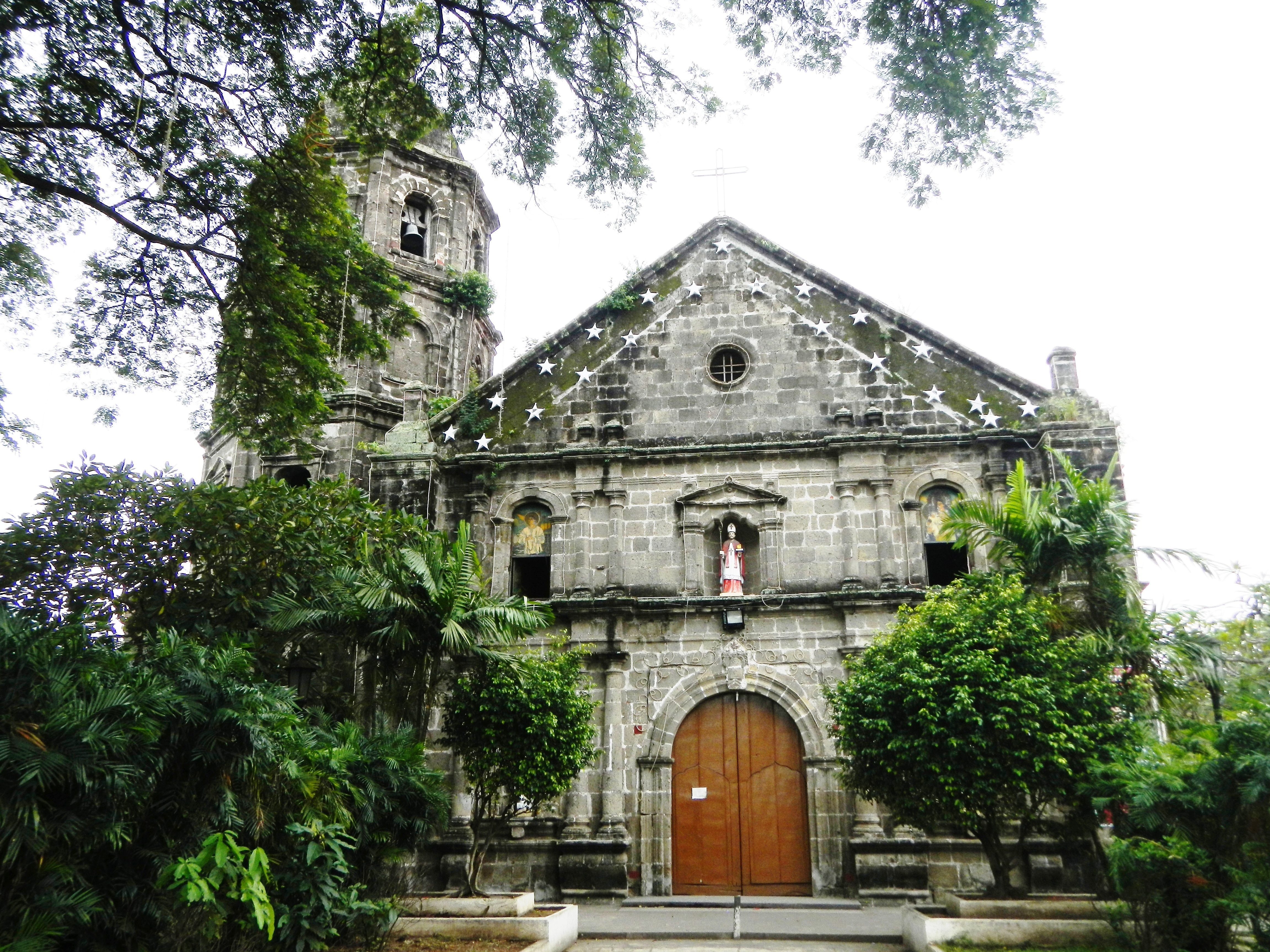 Upload Wizard photos (general description, comprehensive photography of this City, landmarks, Church) of the -- 1771 Saint Polycarp Bishop and Martyr Parish Church of Cabuyao,[1] City of Cabuyao[2] Coordinates: 14°16'47"N 121°7'26"E[3] [4]Brgy. Poblacion I, Cabuyao[5] built in 1763 of the Vicariate of St. Polycarp, Roman Catholic Diocese of San Pablo[6] Episcopal District II Vicariate of Saint Polycarp, also the location of Cabuyao City Plaza, the Cabuyao Sports Complex and the site of St. Claire Monastery, the - May 3, 1935 - the 56 Sakdalista Martyrs' Memorial, Marker, Liceo de Cabuyao, List of schools in -- Cabuyao[7] [8] the bloodiest encounter between the government (Constabulary) and the Sakdalista of the town on May 2–3, 1935 at the town plaza and compound of the church.[9].